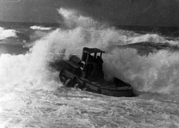 Tel Aviv port tug handled by Catriel Yaffe . working despite high waves